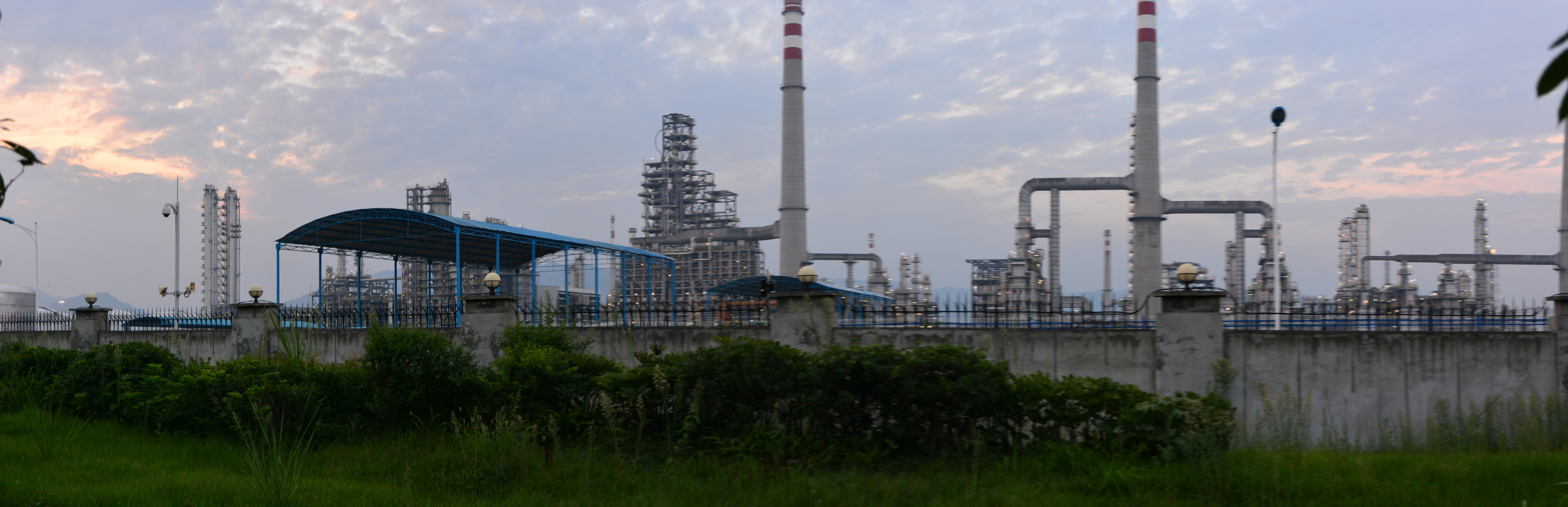 A Chamical Plant in Pengzhou,Sichuan. Builing of this plant was combat by local citizens,but government build it enforcely,and now it is producing.